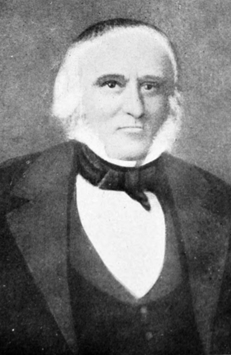 John McLoughlin